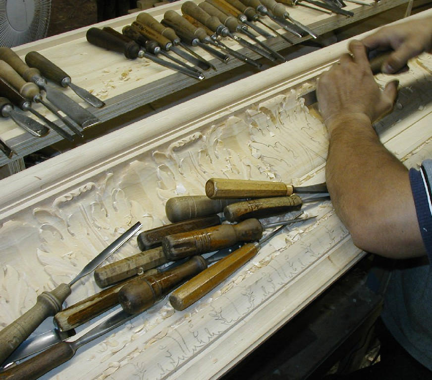 A picture frame being carved by hand.Juangonzalez64 04:50, 16 December 2006 (UTC)